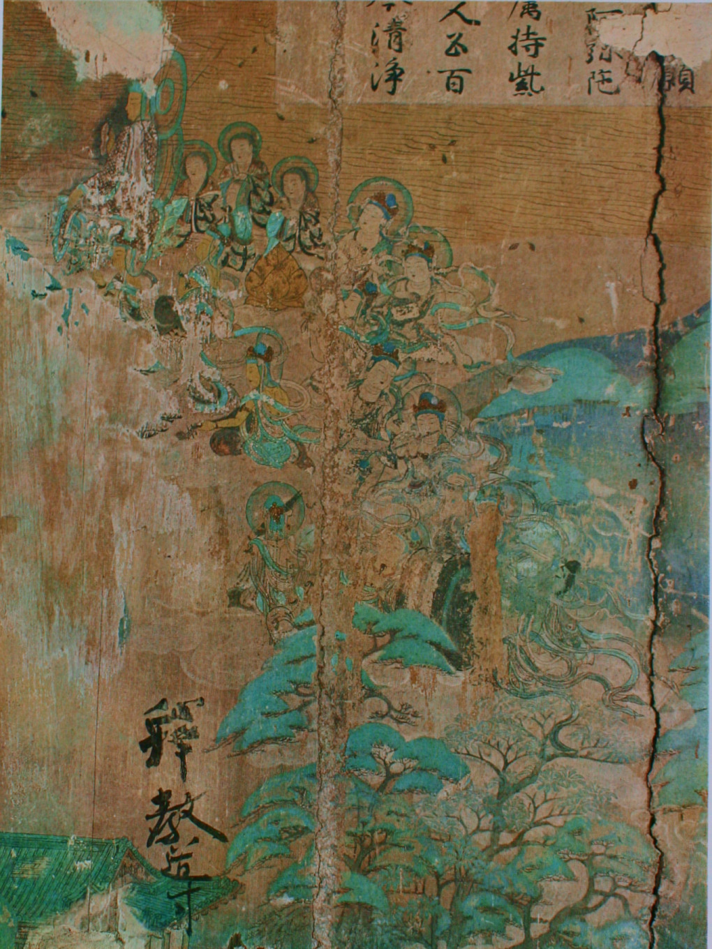 Wall Painting on North door of BYODOIN, upper Detail, ACE1053, UJI, KYOTO, Japan